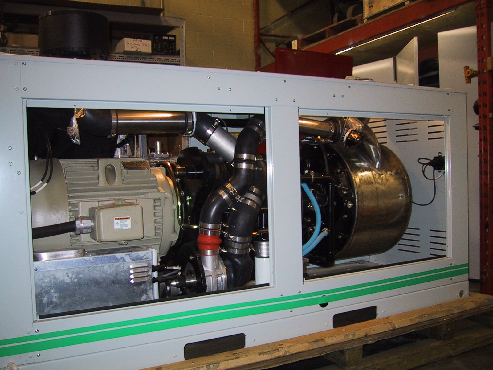 Copied from en.wiki Original caption is as follows: A Stirling engine and induction generator set. This is a 55 kW (electrical) generator set for combined heat and power applications. The total enclosure length is about 2.5 metres, and this assembly has a mass of about 1300 kg. At the right side is the combustion chamber and heat exchanger. The four-cylinder regenerative Stirling engine is adjacent to the combustor, with the swash-plate drive housing obscured by the center post of the enclosure. At the left of the picture is a 55 kW induction motor used as a generator and to start the Stirling engine. Below the induction generator terminal box (black cable going to left) is an electrolyzer used to replenish the hydrogen gas working fluid of the engine. To the right of the electrolyzer is a small blower to force combustion air into the burner assembly. The blue hoses circulate cooling water through the cool-side heat exchanger - a hose connection point for cooling water is just above at the right end of the induction generator. The Stirling engine/generator set shown here is made by STM Power Inc. and is intended for auxiliary power and heat production at large farms, or for plants that produce waste flammable oils. This engine can also be adapted to run on low-heat-value landfill gas or biofuel digester gas. A photo I (user Wtshymanski) took and that I release to the public domain.